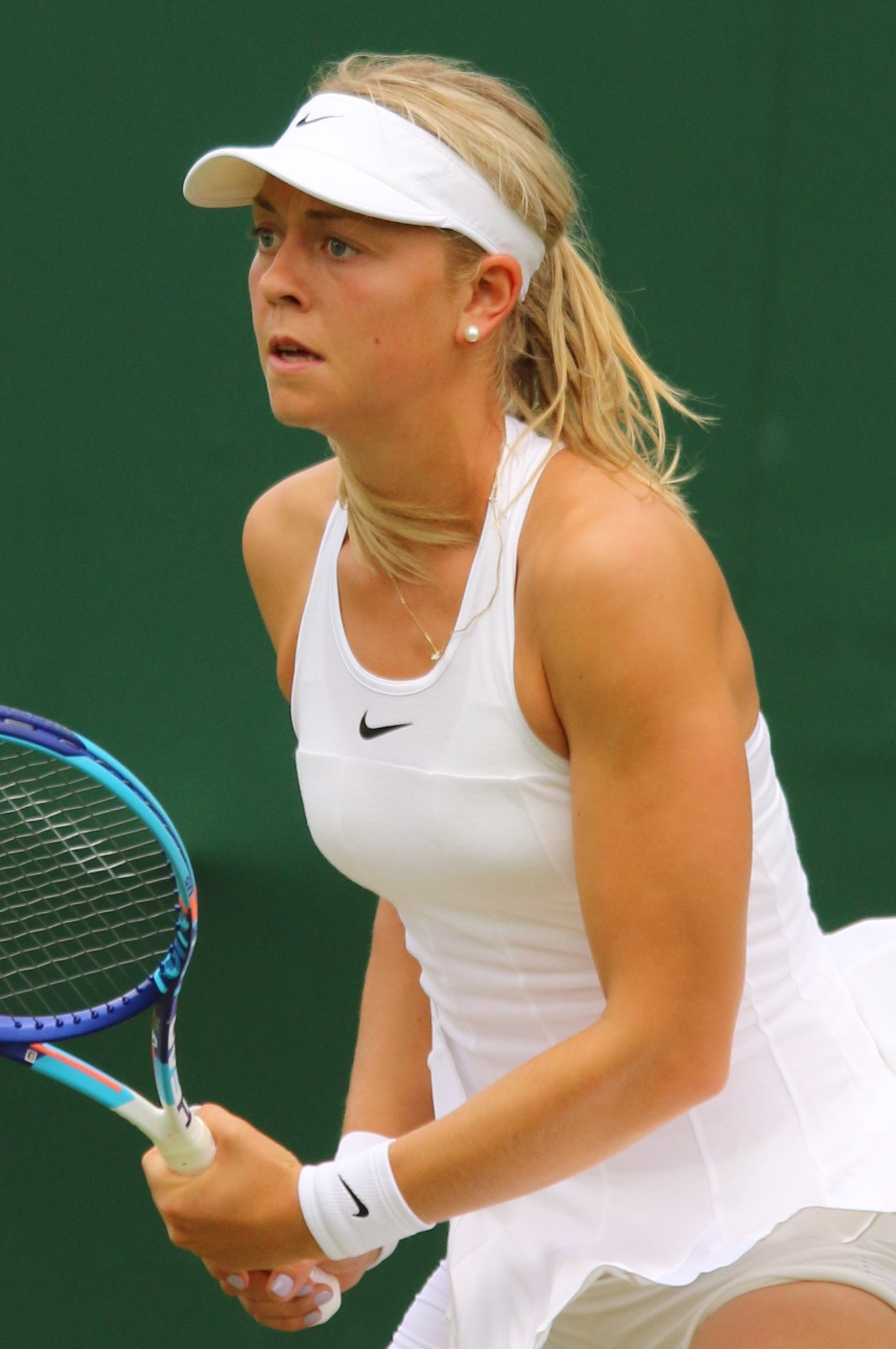 Witthoeft WM16 (7)